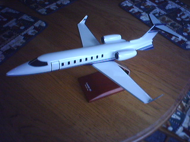 From my dad! This is one of the nicest Lears. And I correctly guessed the model number.